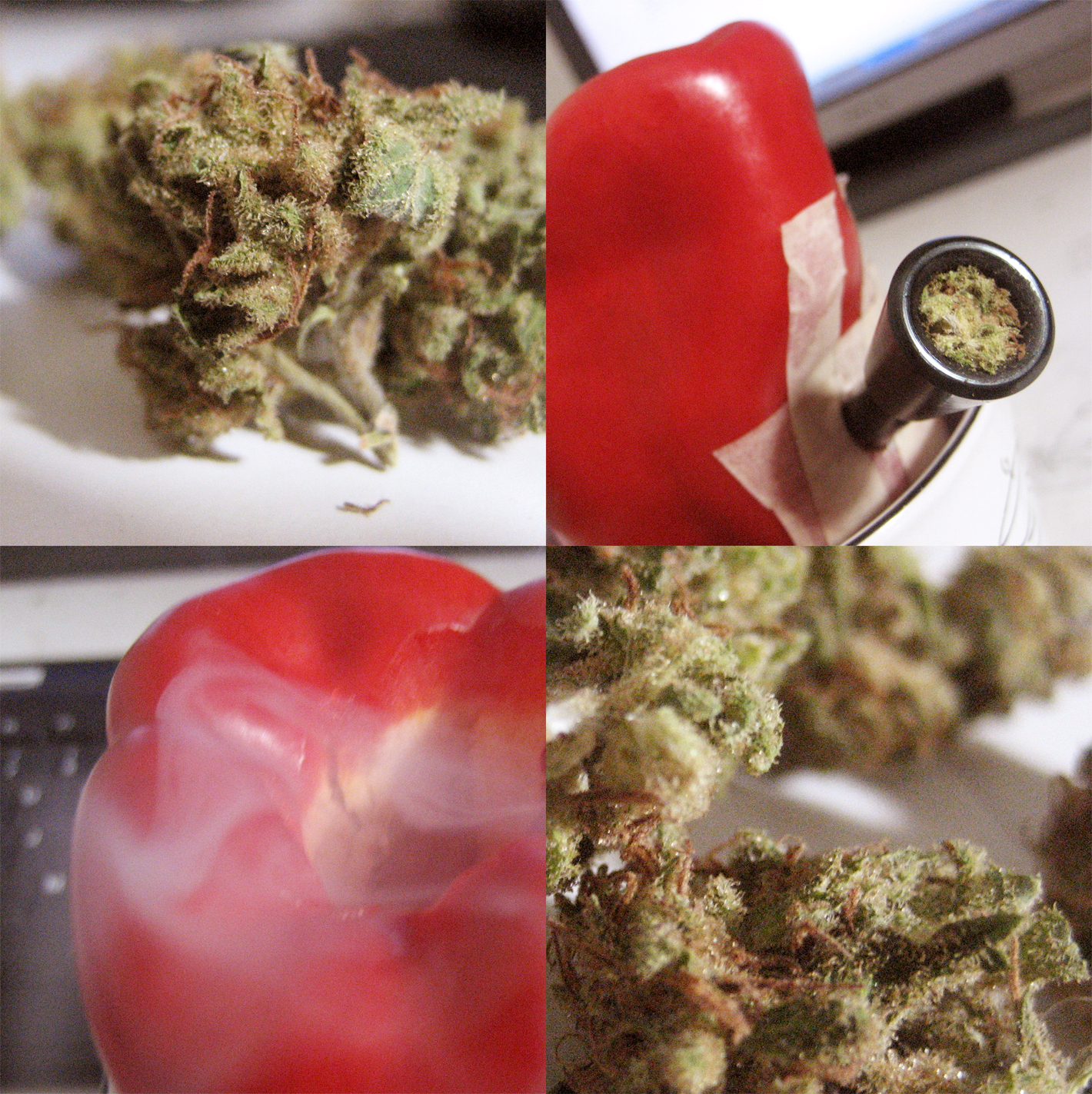 Bong made out of a red pepper for cannabis comsumption